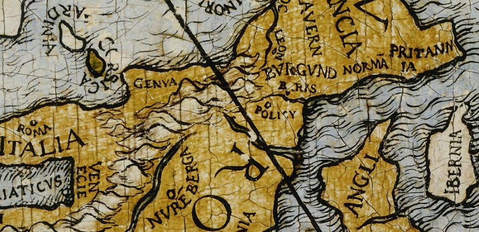 Holbein Ambassadeurs detail Europe